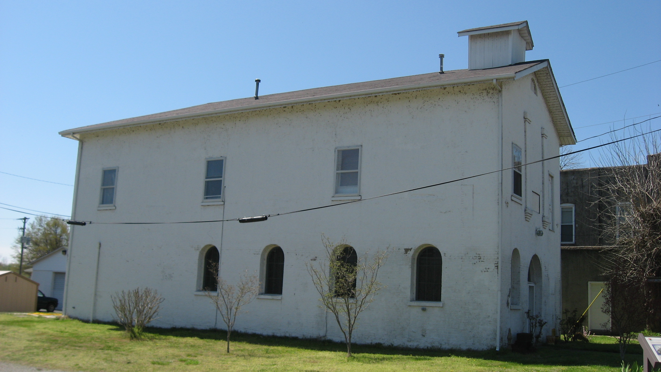 Eastern side of the Federal Commissary Building, located on the southwestern corner of the junction of Court and Charlotte Streets in Smithland, Kentucky, United States. Built in 1861, it is listed on the National Register of Historic Places.